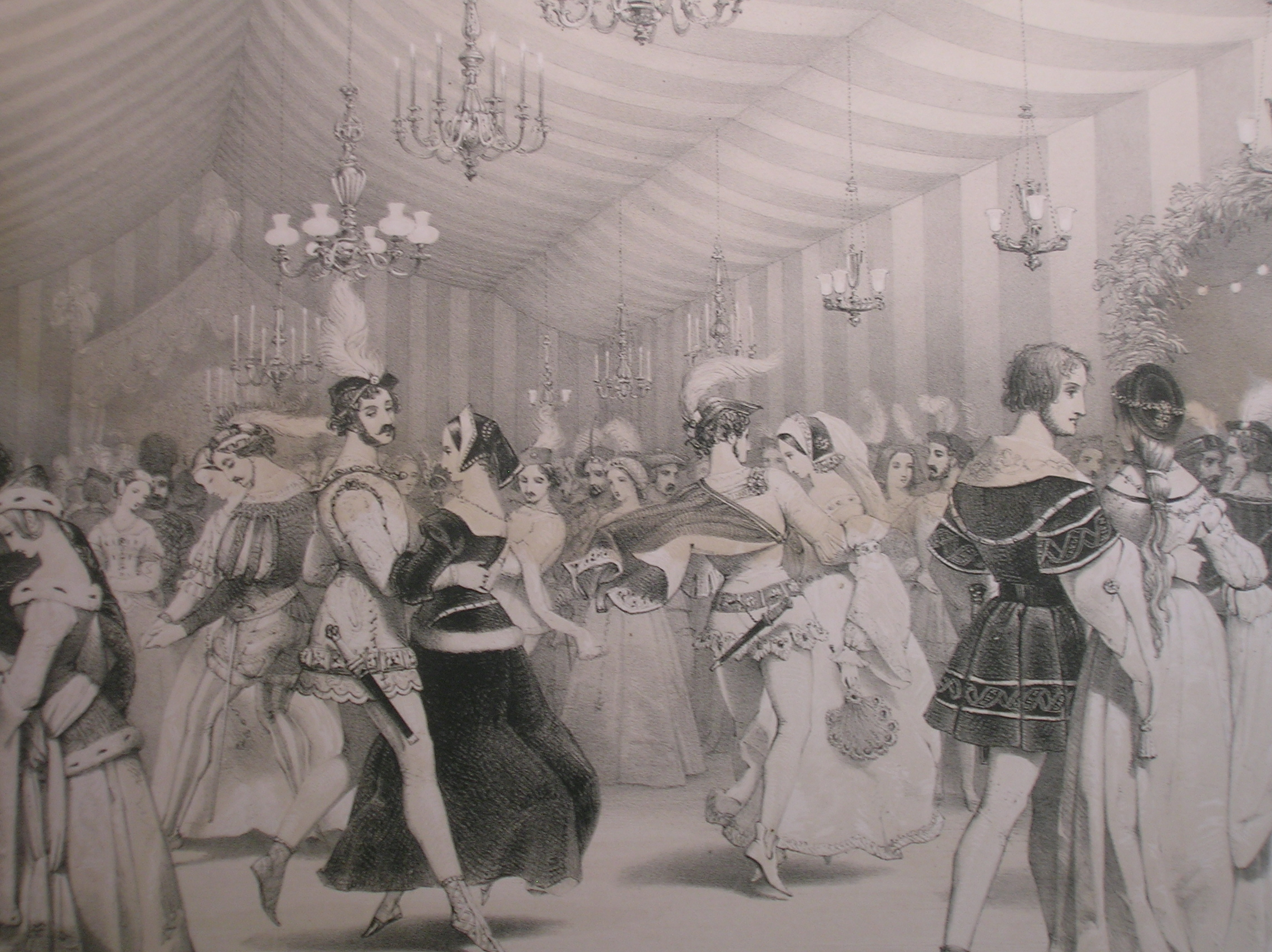 The ballroom at Eglinton Castle